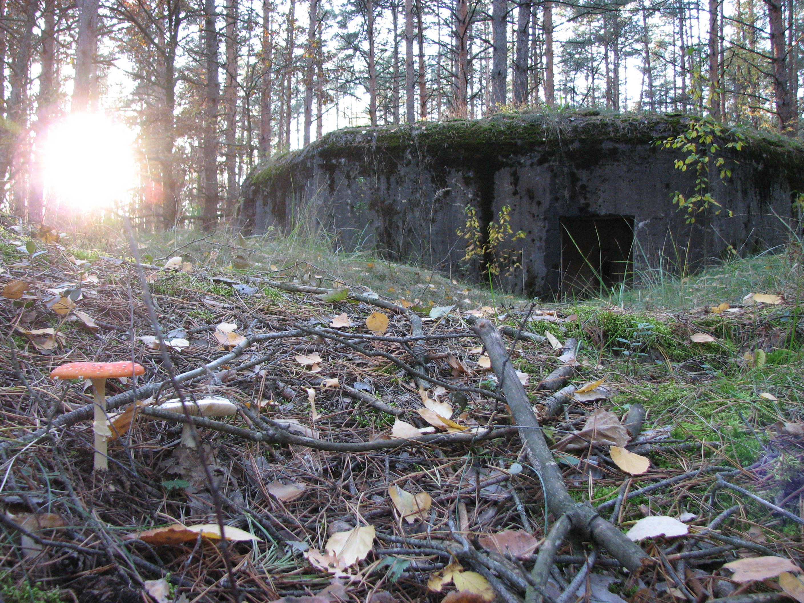 Pillbox 512 (Kyiv Fortified Region)